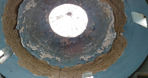 حمام تاریخی ممقان